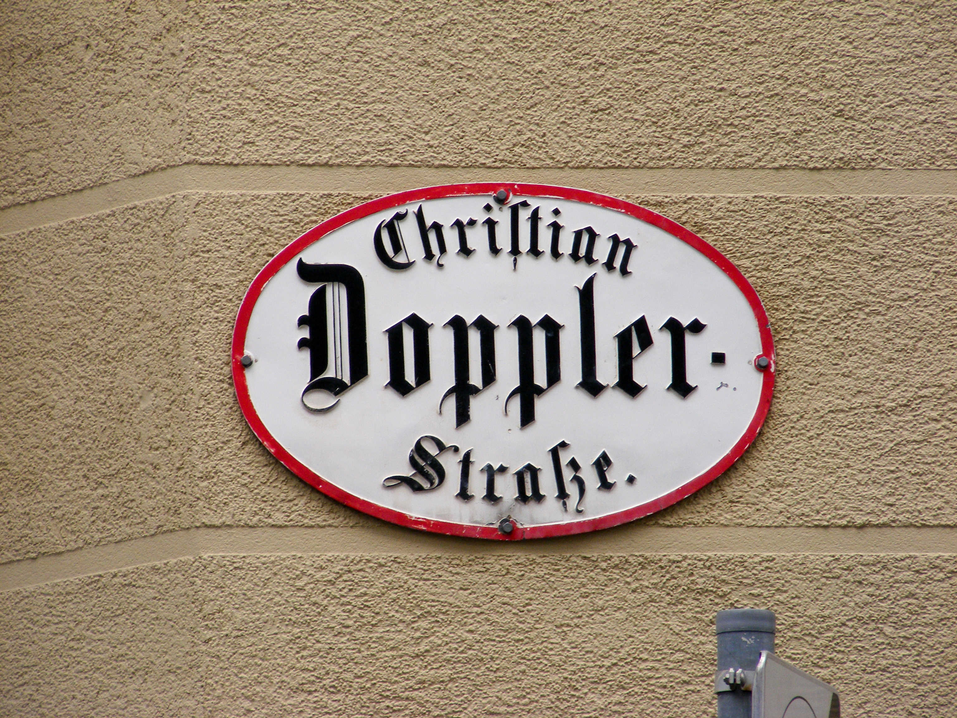 Street name sign in Lehen, a district of the Austrian city of Salzburg. The street is named after the Salzburg-born physicist Christian Doppler (1803–1853).